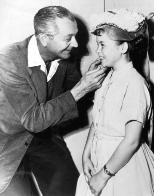 Publicity photo of Robert Young and Lauren Chapin from Father Knows Best, 1957.